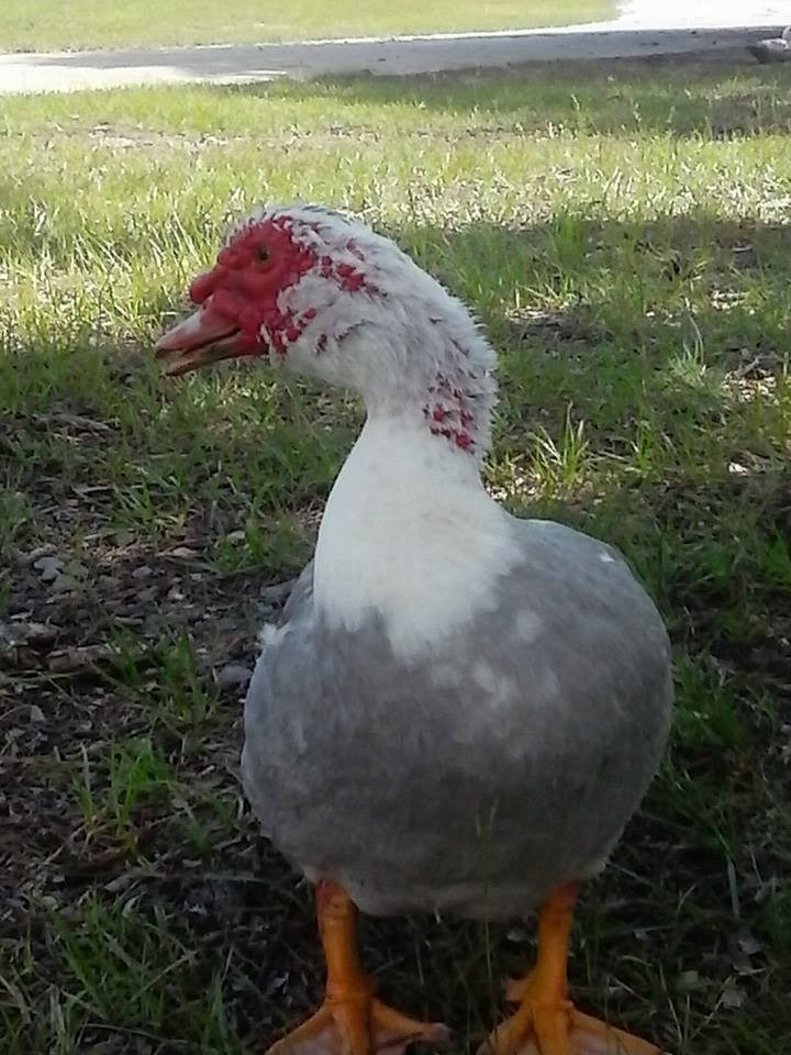 Cairina moschata -Graniteville SC USA